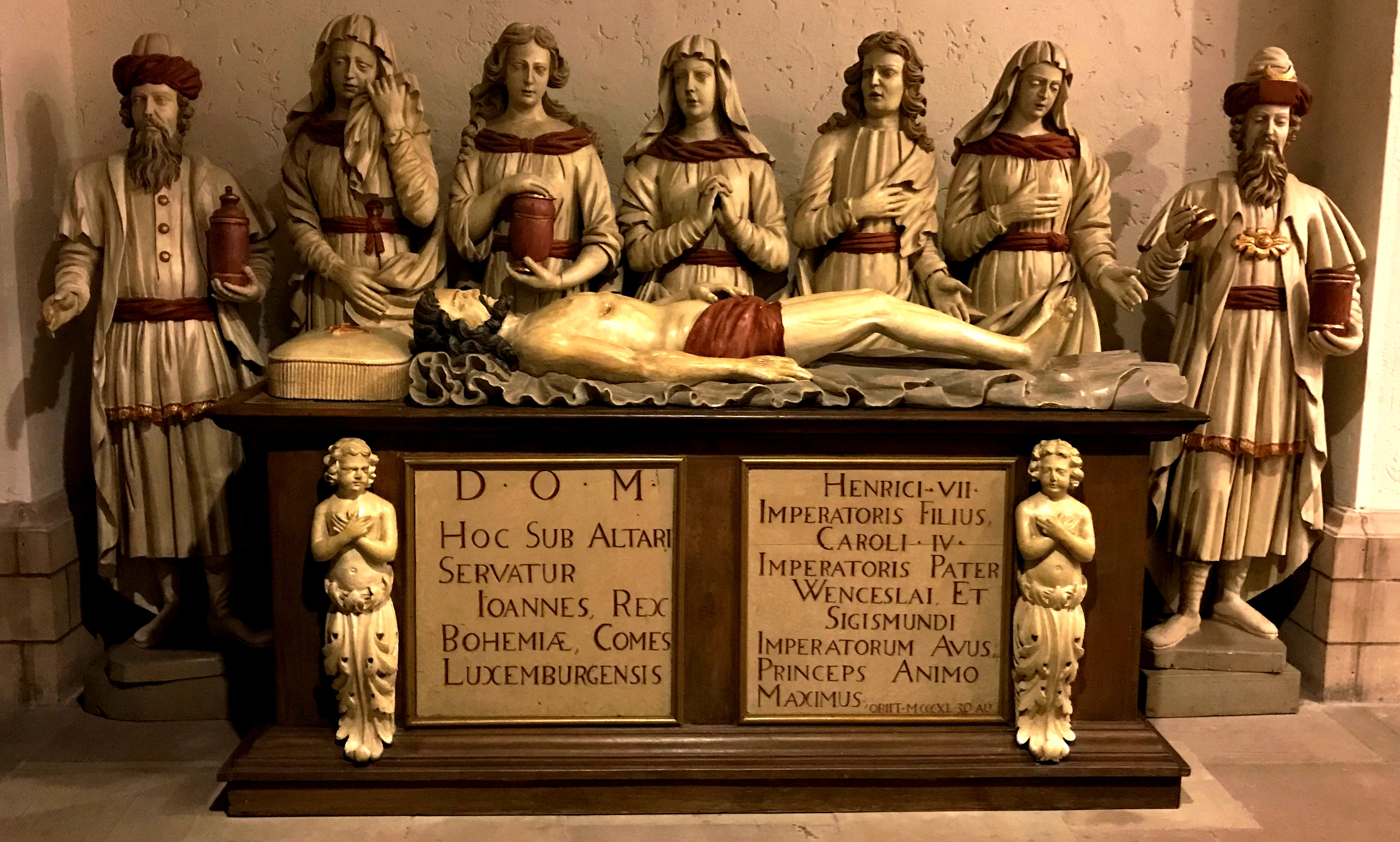 Crypt of Notre-Dame Cathedral, Luxembourg